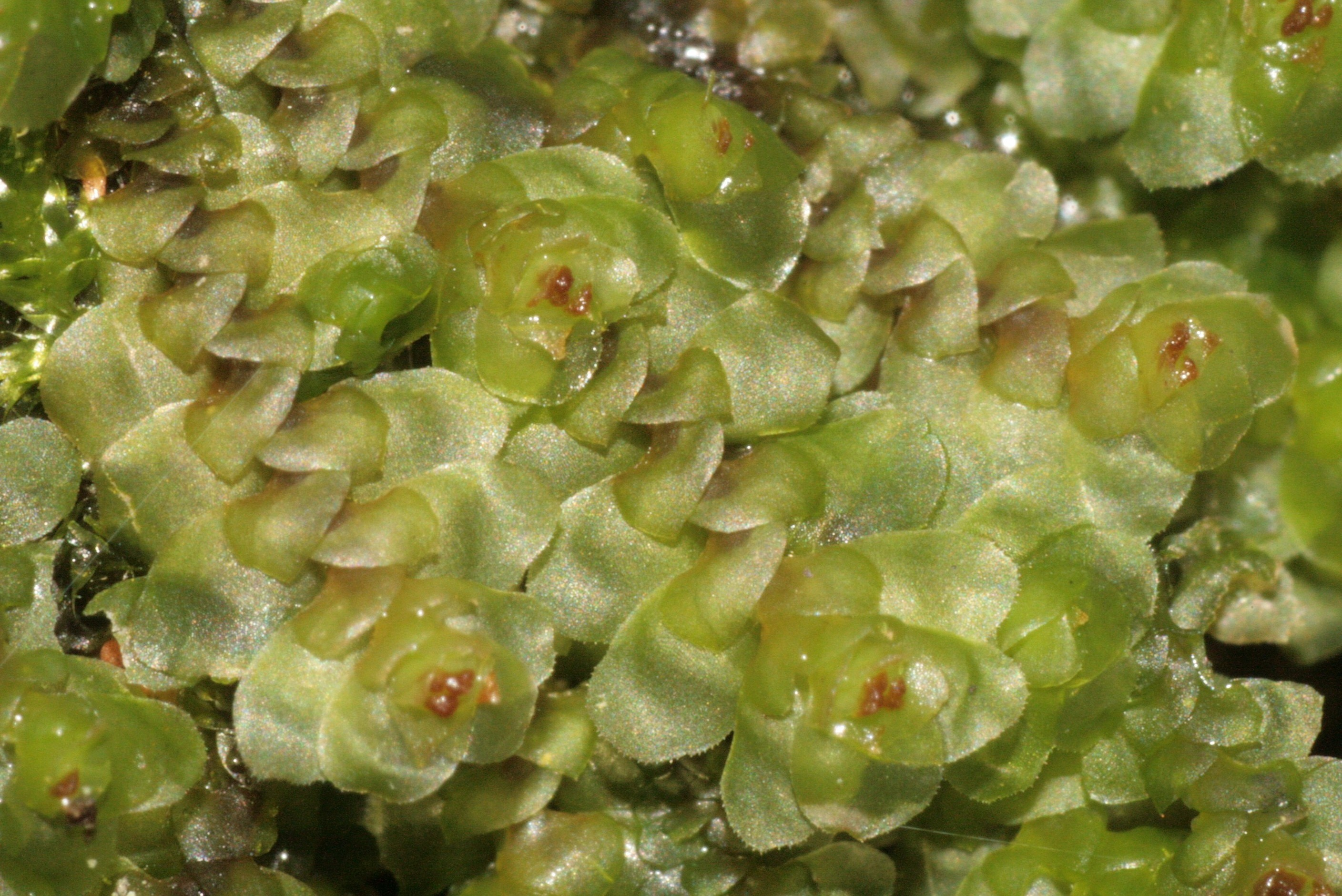 Scapania nemorea